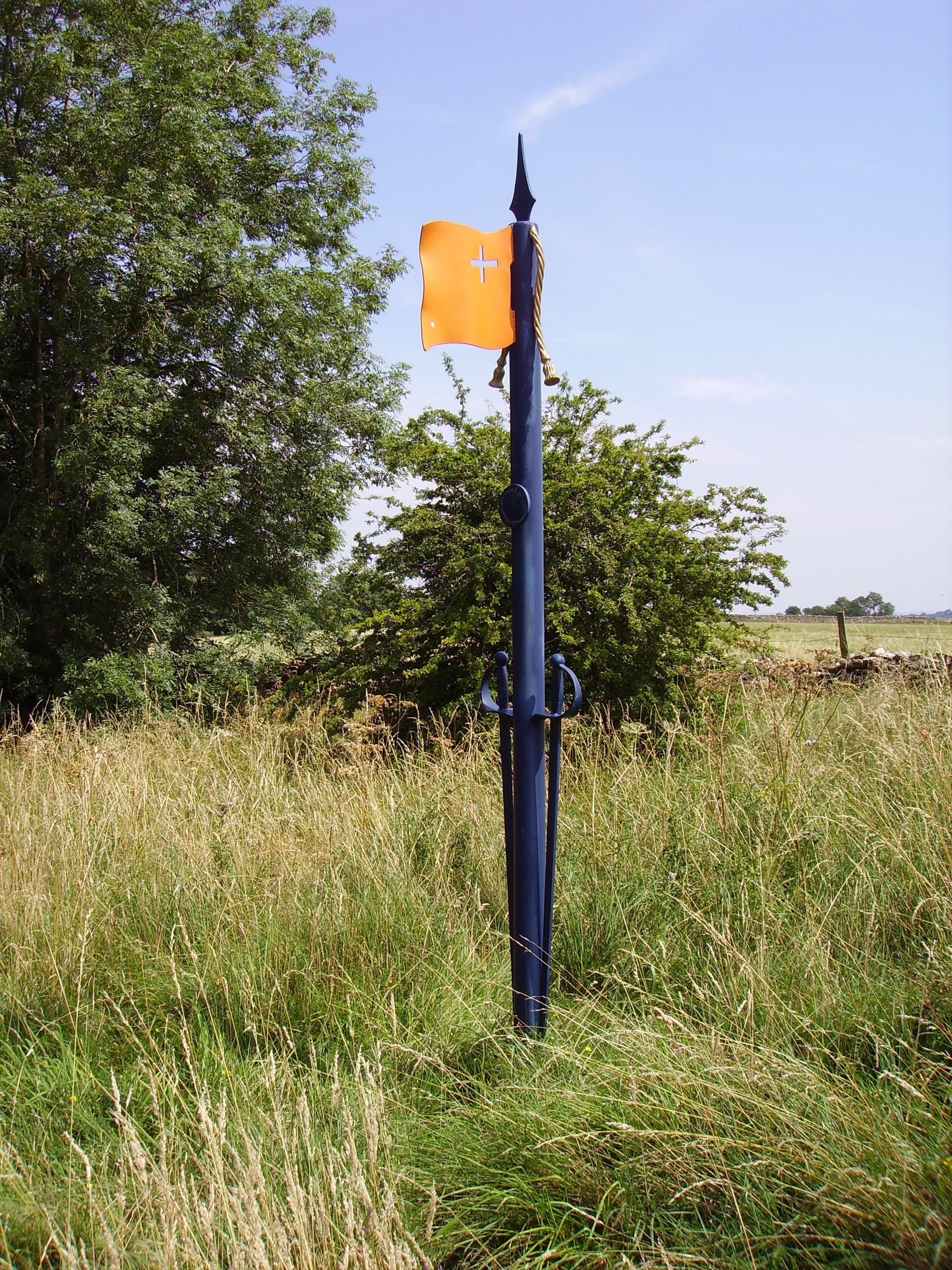 Battle of Lansdowne marker